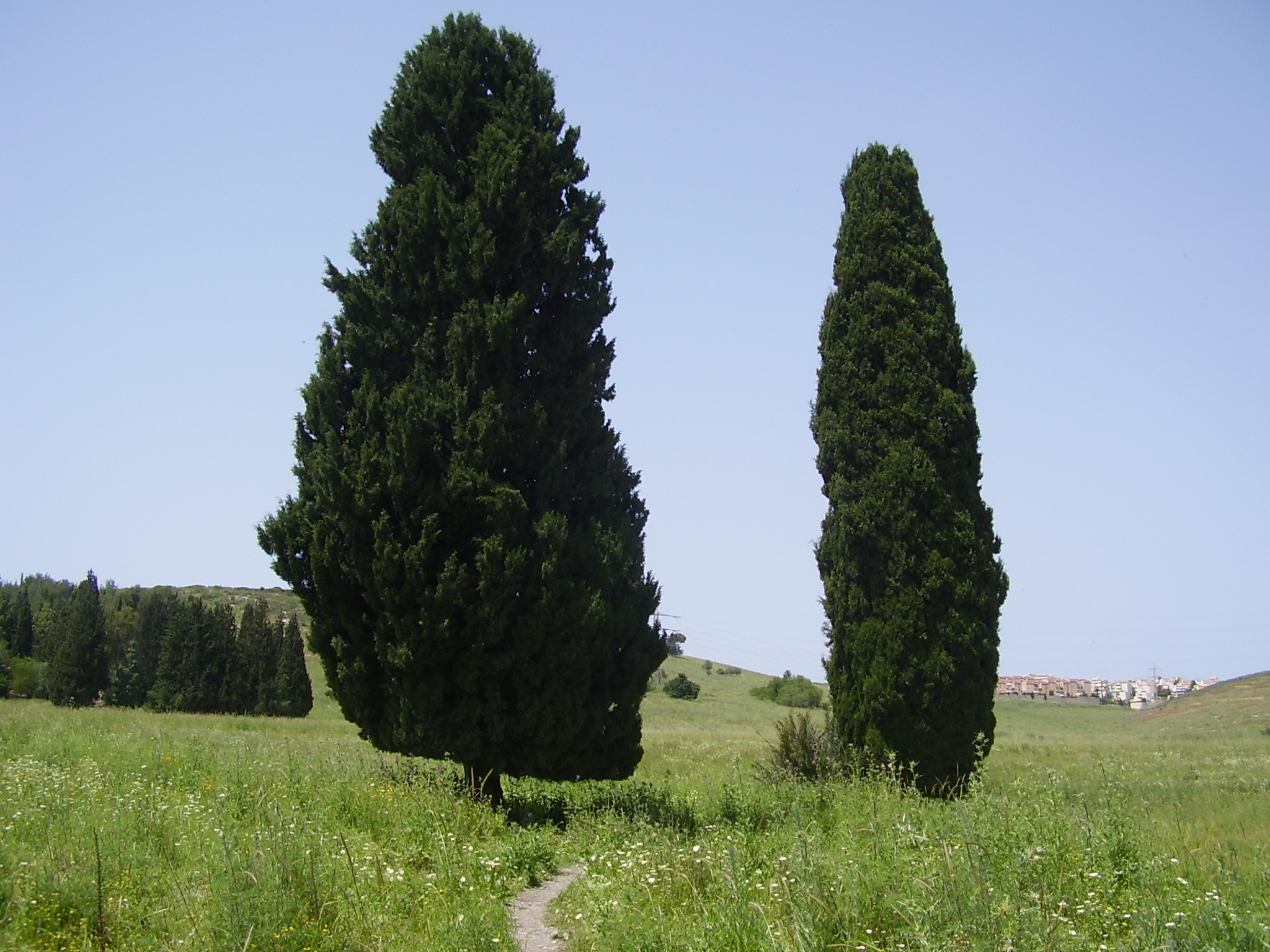 the two cypresses in ramat hashna'im שני הברושים לזכר השומרים יואש זולר ויצחק קליצ'בסקי, ברמת השניים